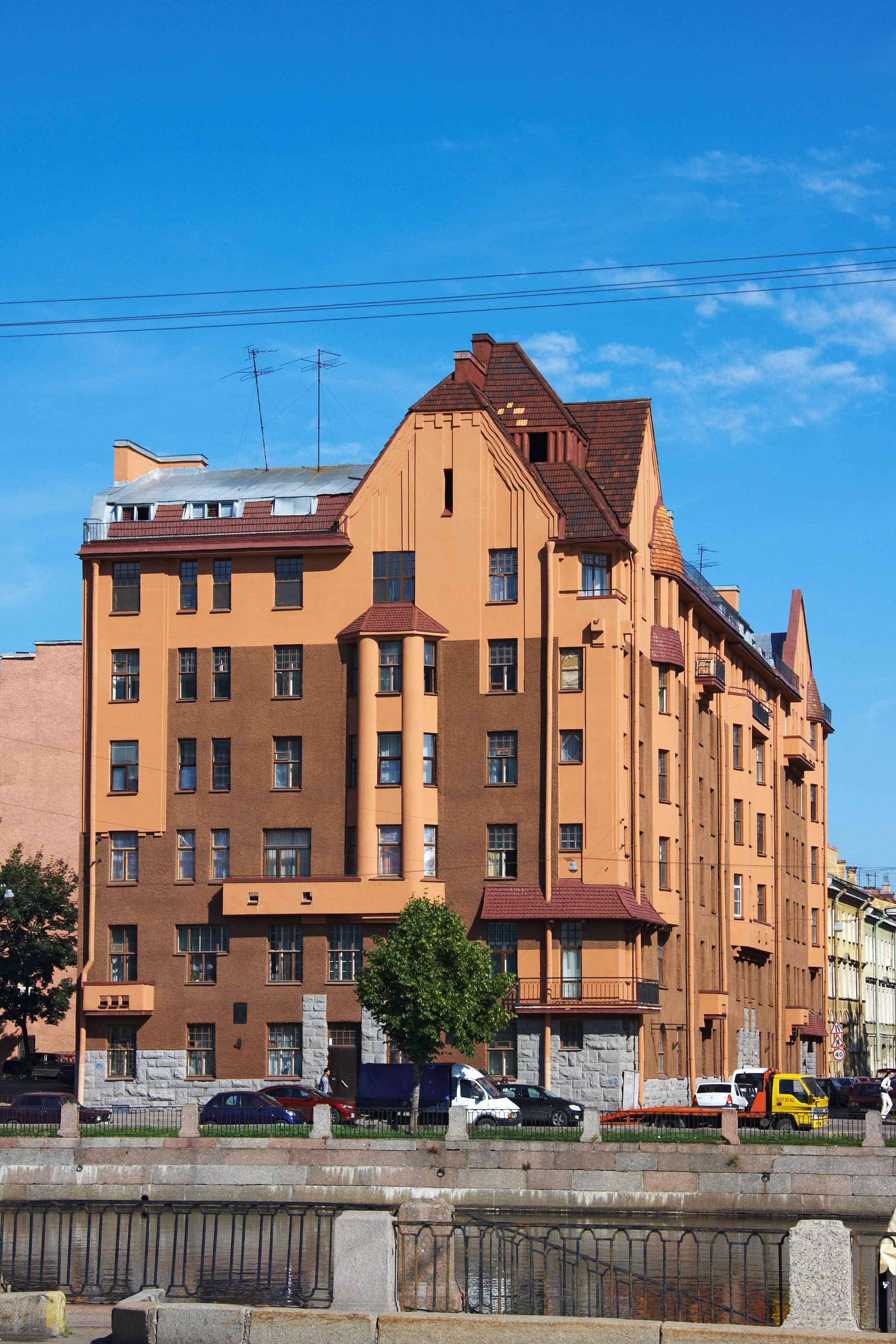 Kapustin's house in Saint Petersburg